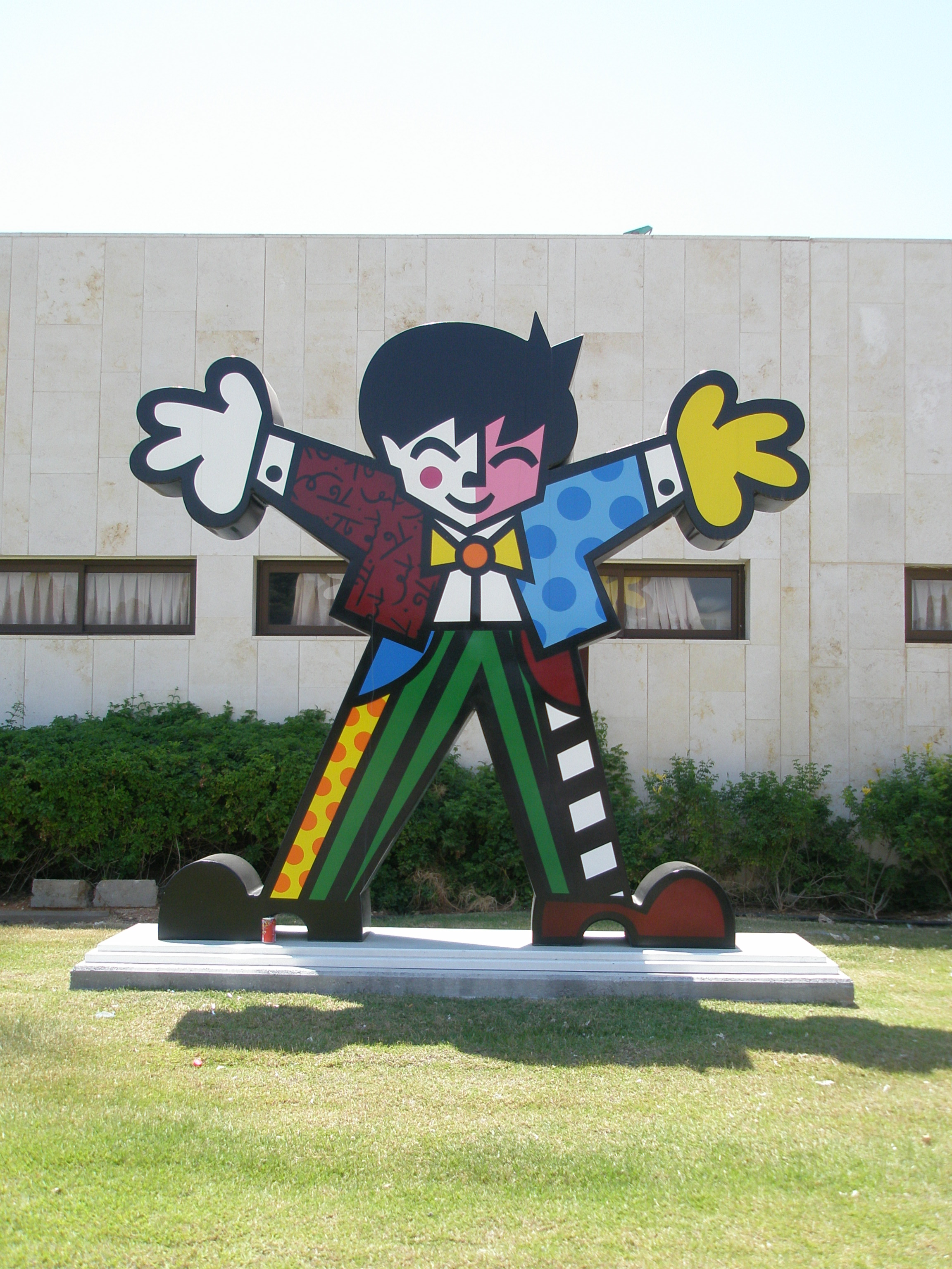 Welcome by Romero Britto